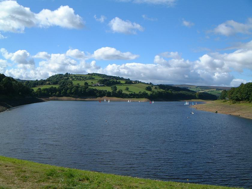 Personal photograph taken on 16th September 2001 by Mick Knapton